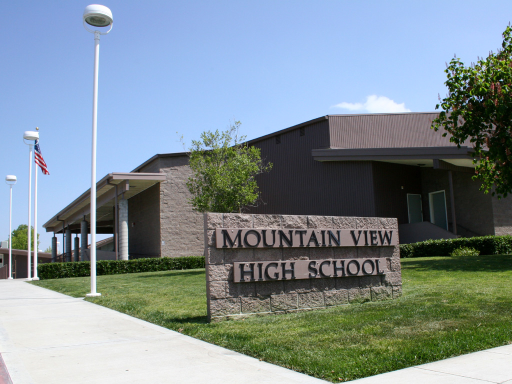 Premier grammar School building.